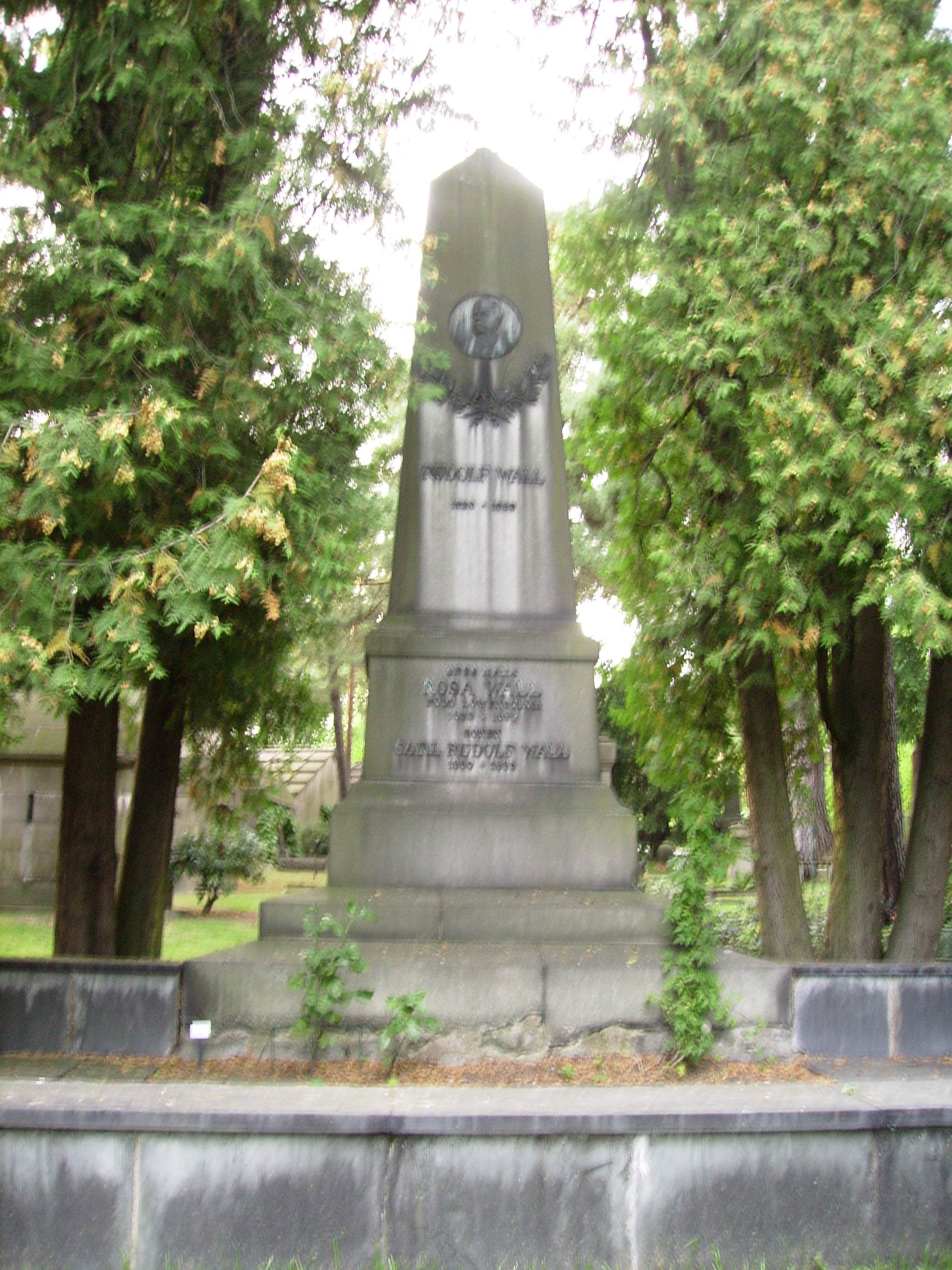 Picture of Rudolf Wall's grave at Norra begravningsplatsen in Stockholm